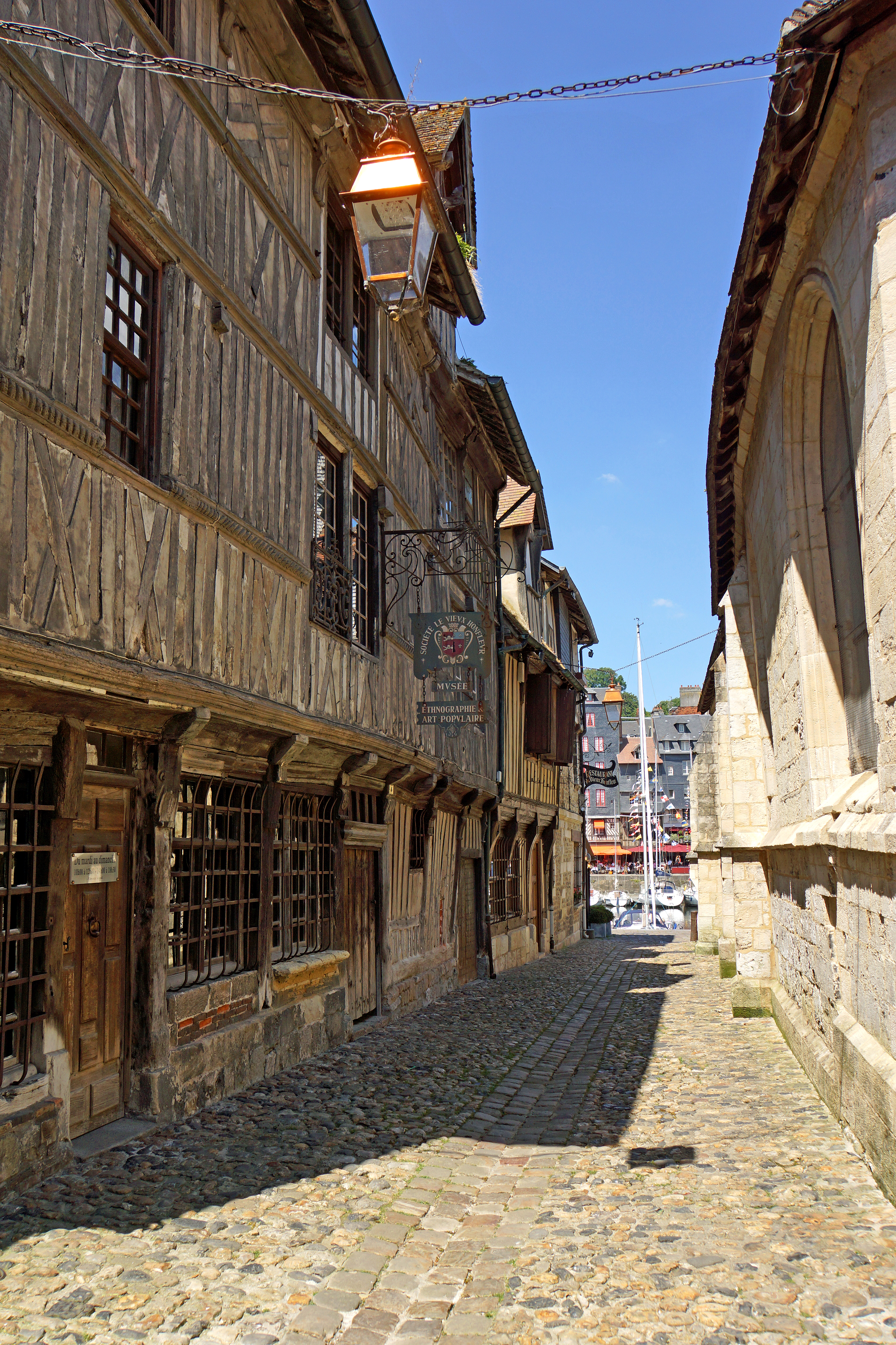 PLEASE, NO invitations or self promotions, THEY WILL BE DELETED. My photos are FREE to use, just give me credit and it would be nice if you let me know, thanks. Some of the small streets take you right back to the Middle Ages with their corbelled wood-sided houses typical of a time when, to avoid paying a tax based on the ground level surface, people were adding on more space by stacking up larger and larger floors.